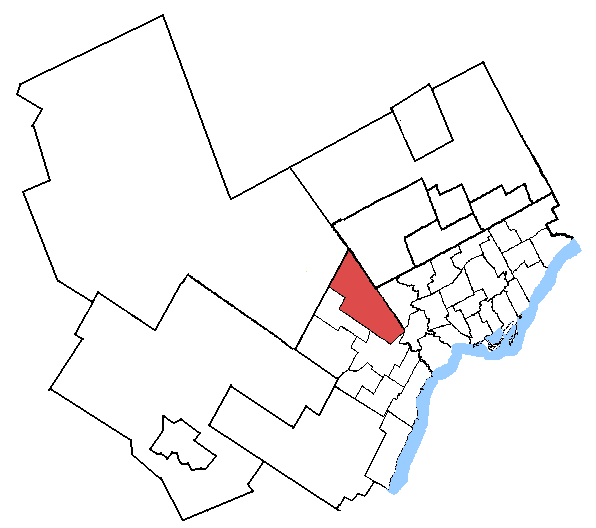 Map of the Bramalea—Gore—Malton electoral district. Based on Earl Andrew's maps, created by SimonP.